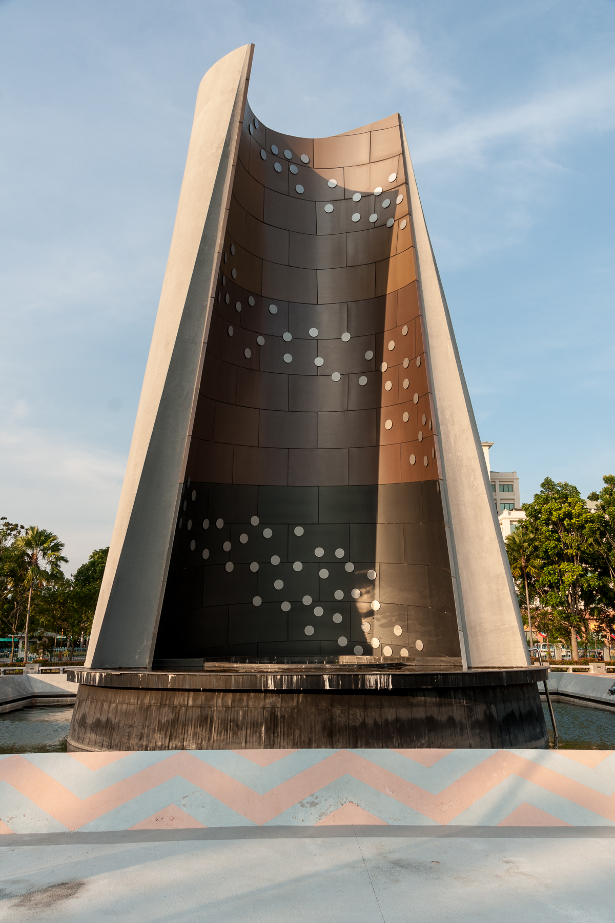 Kota Kinabalu, Sabah: Monument of the Heroes (Tugu Pahlawan). Dedicated to immortalize the warriors of the Sabah State.